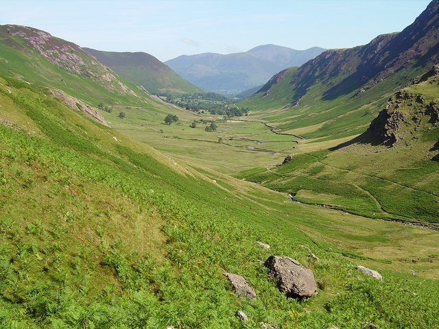 Newlands High in the Newlands Valley. Taken from the slopes of Dale Head and looking downstream, with Skiddaw in the distance. The shadowy crag, just inside the square is Castle Nook.